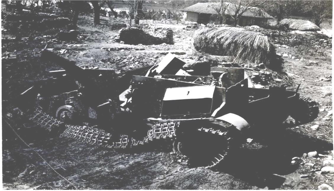 ‘An enemy armored car lies destroyed north of Chunchon’ RG 127, 1st Marine Division Photographic Supplement, Apr. 1951, NARA